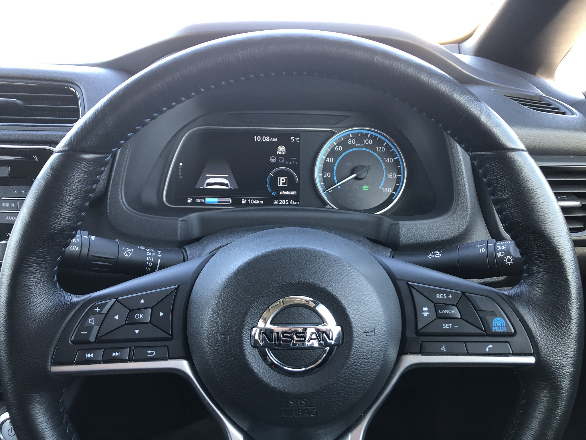 Nissan Leaf INTERIOR ProPilot Meter Panel.Photographed in Japan.